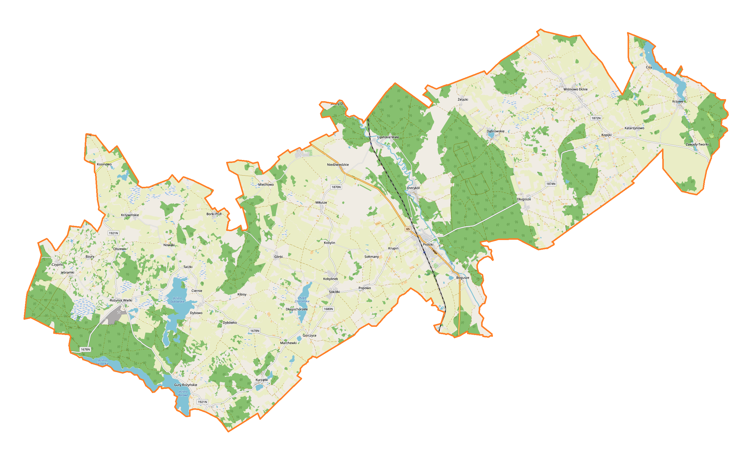 Location map